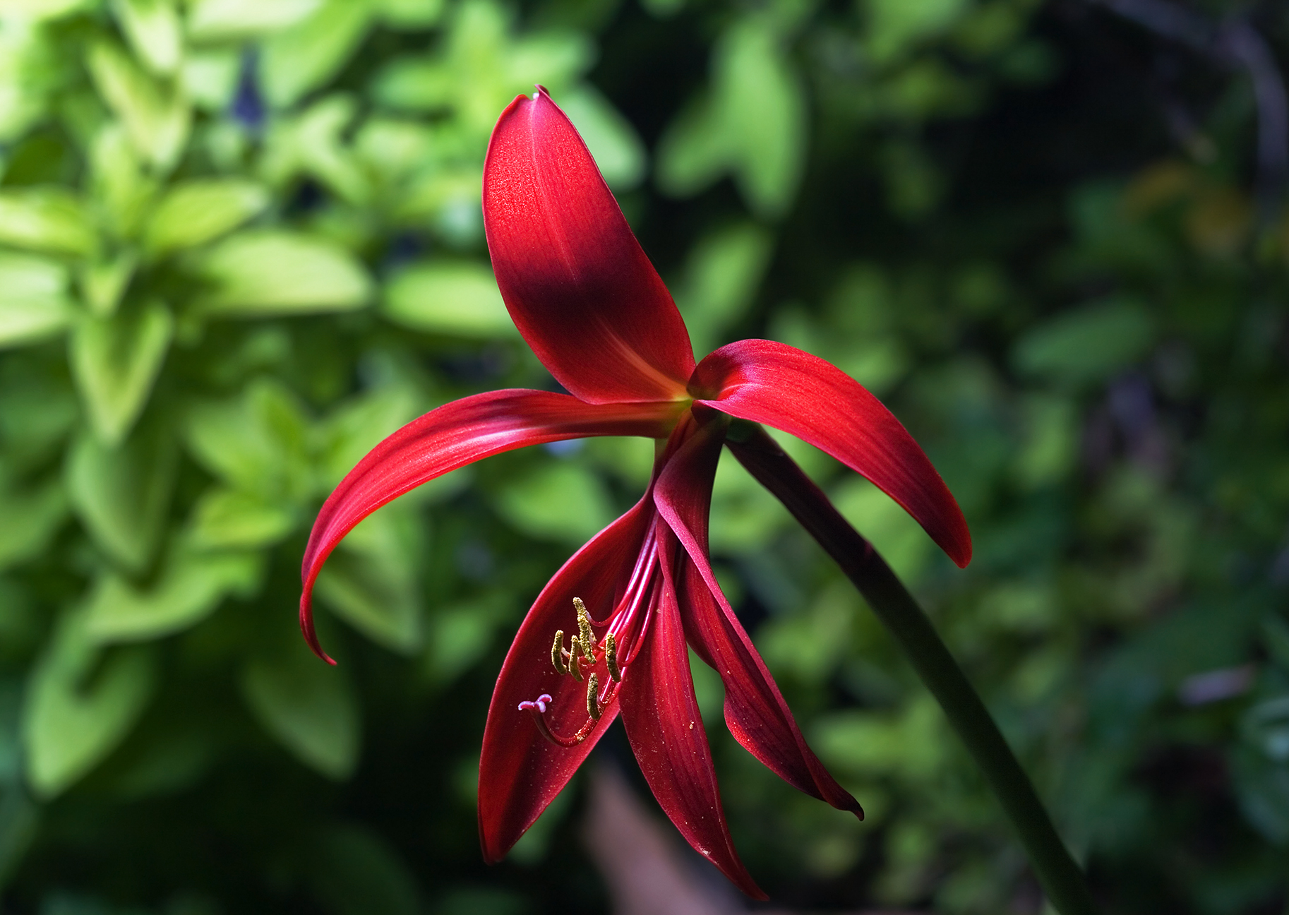 Sprekelia formosissima in Tasmania, Australia Camera data Camera Canon EOS 400D Lens Canon EF 70-200mm f4L w/ 12mm extension tube Flash Shoot through umbrella left Focal length 180 mm Aperture f/5.6 Exposure time 1/160 s Sensivity ISO 100